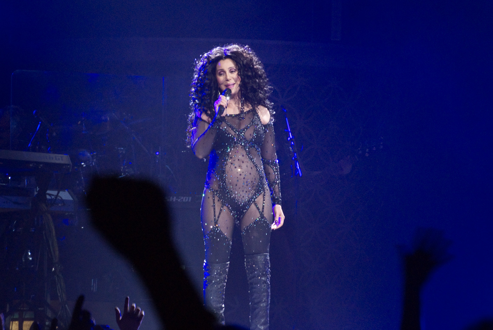 Cher performing live in concert, 2014.